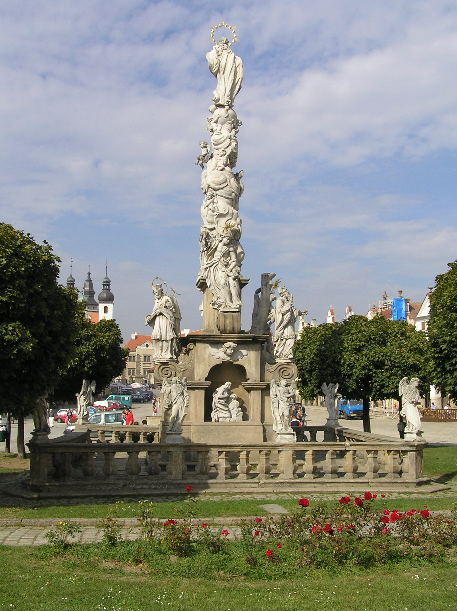 The Maria column in Náměstí Zachariáše z Hradce, the main square of Telč, Moravia, Vysočina Region, Czech Republic.